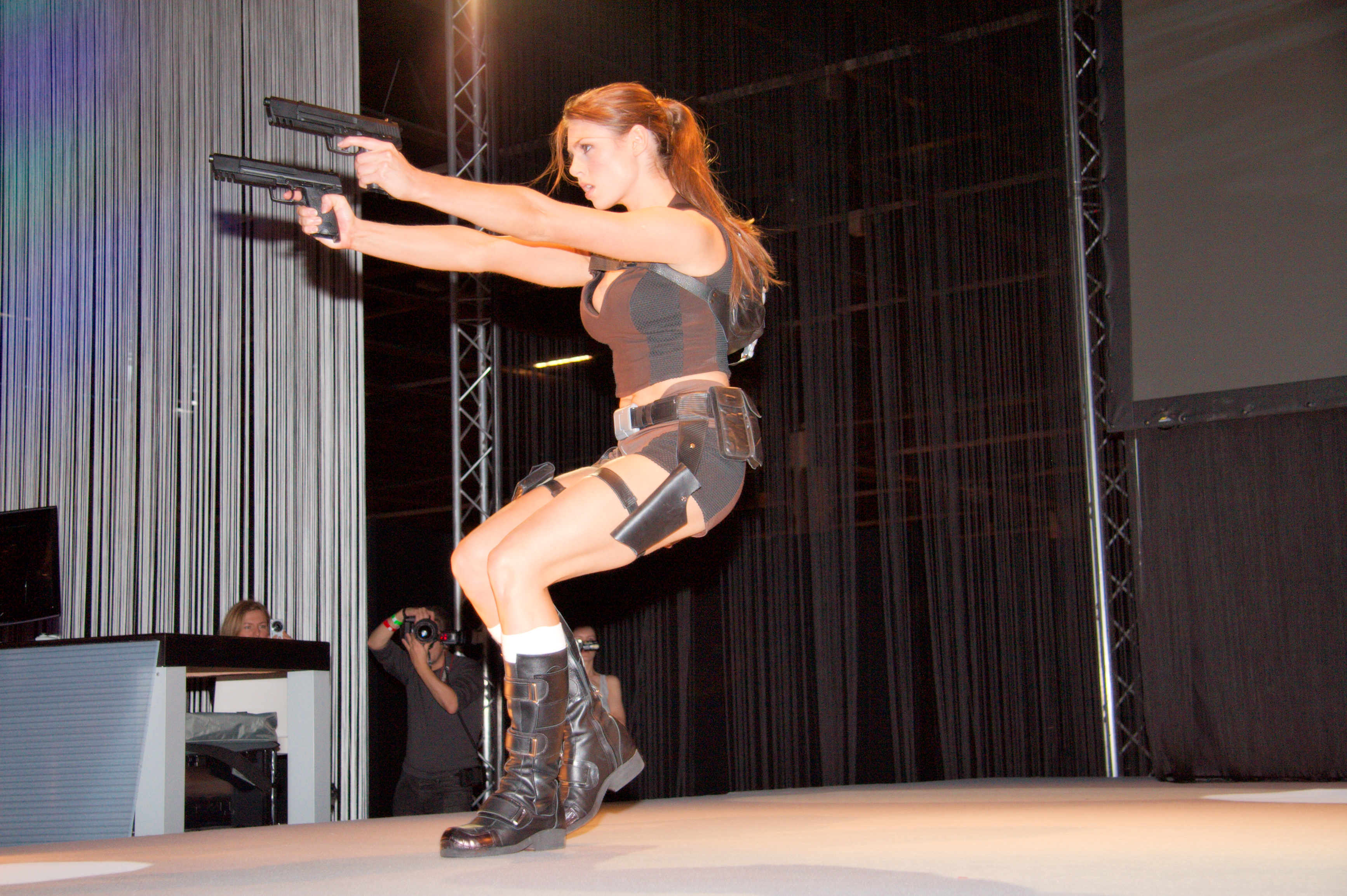 Alison Carroll, the official Lara Croft model for Tomb Raider: Underworld at Festival du jeu vidéo 2008 (Paris, France).